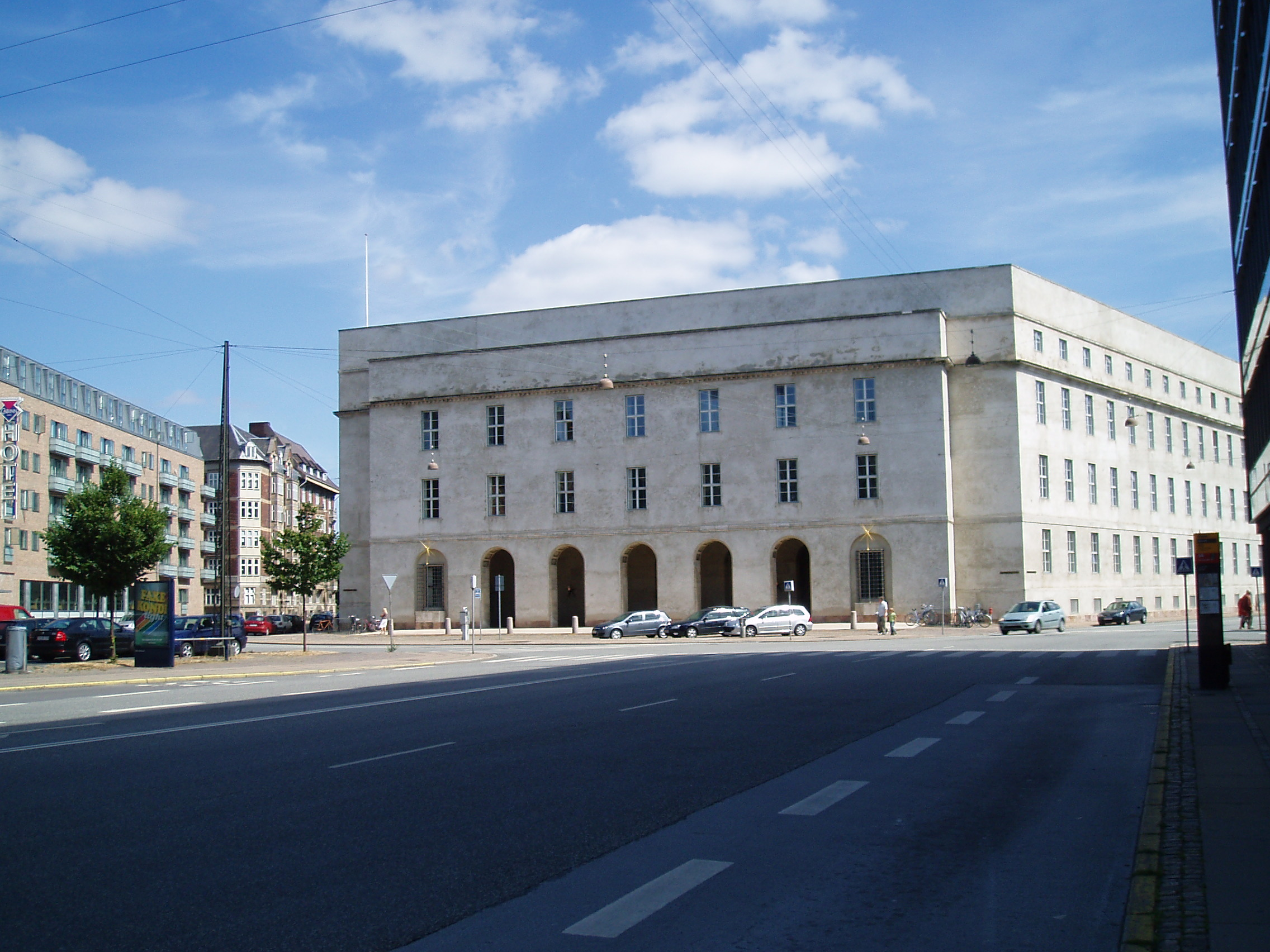 Headquarters of Copenhagen Police Department - "Politigården".